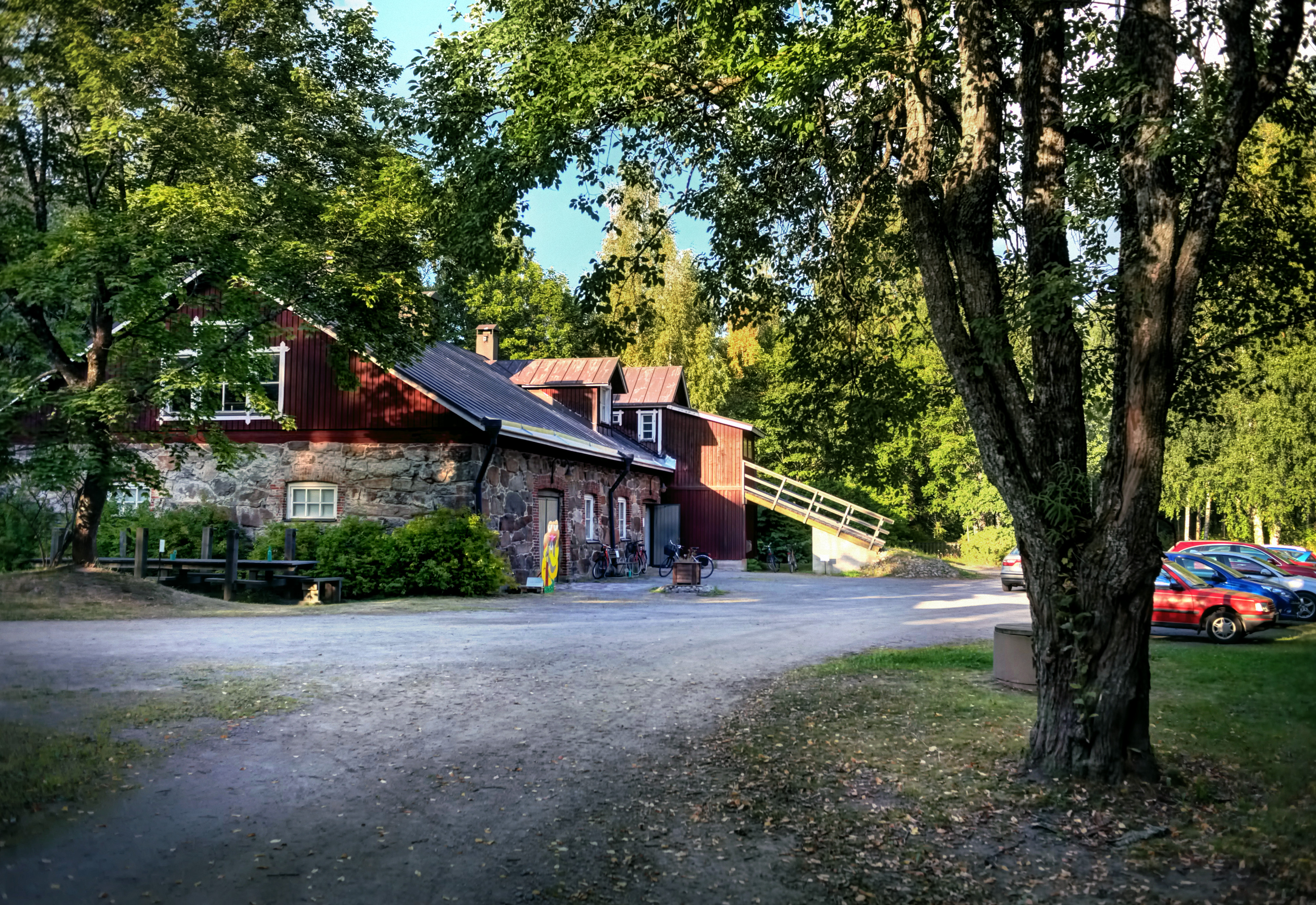 Kaakkois-Suomen Valokuvakeskus ry, Galleria Pihatto, Lappeenranta, Finland